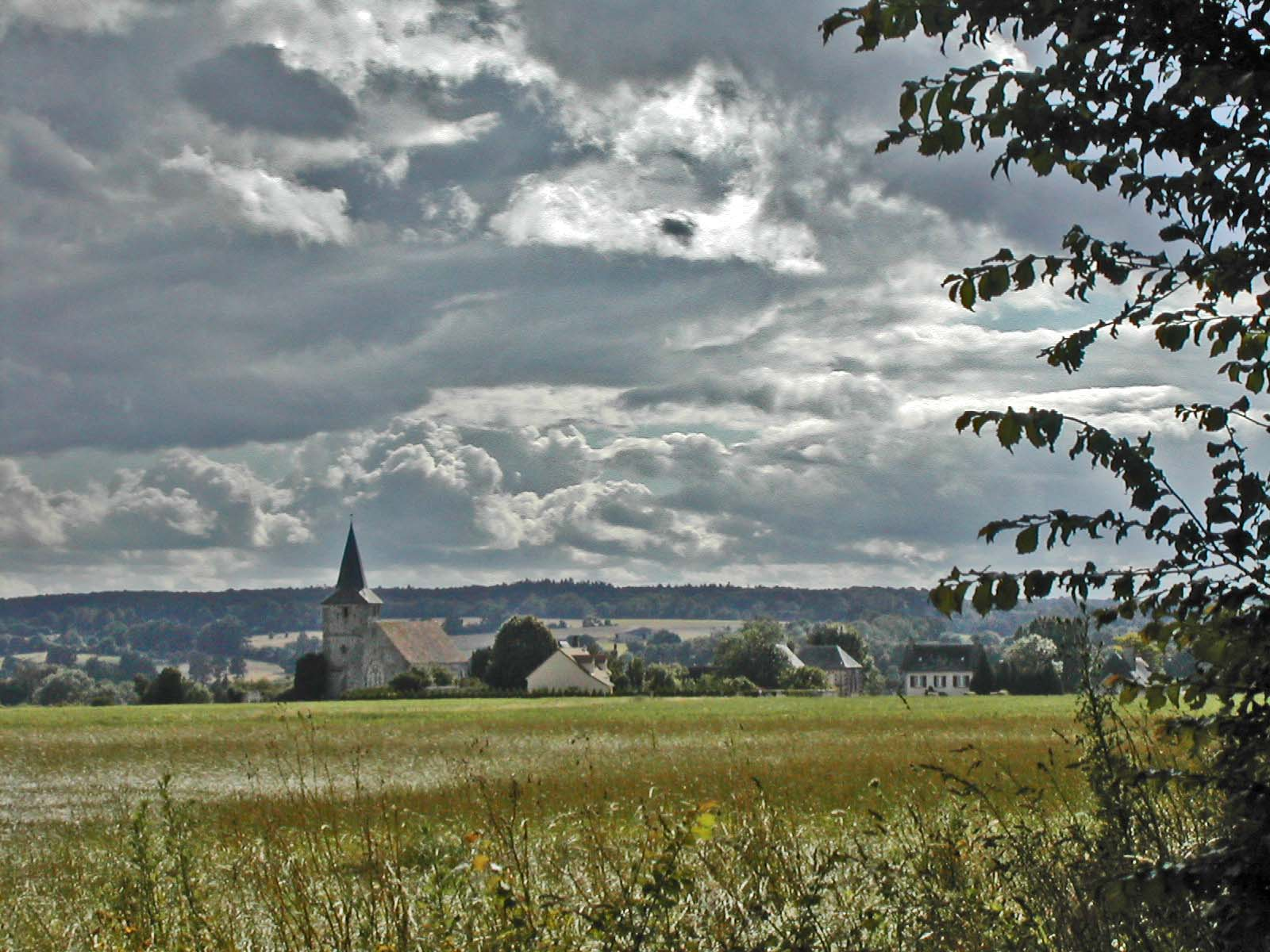 photoshopped image of Joue du Plain